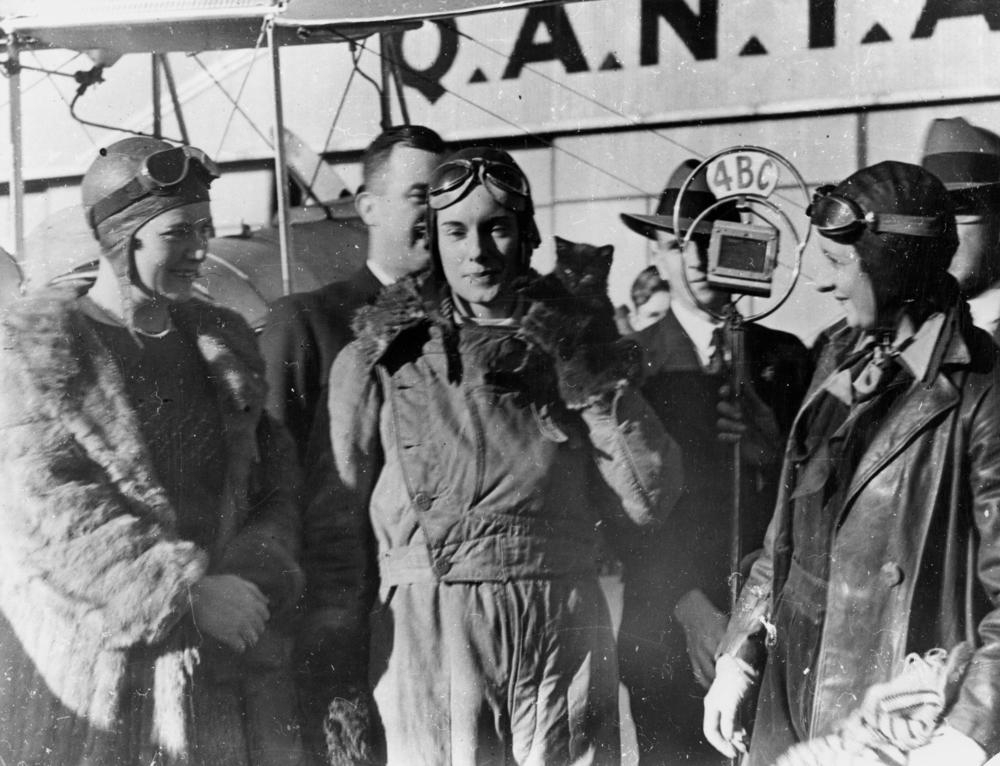 Creator: H. B. Green & Co. Location: Archerfield, Brisbane, Australia. Date: June 1934. Description: New Zealander Jean Batten is pictured in the centre, holding her black kitten mascot. She is wearing her aviator helmet, goggles, overalls and jacket. Mrs W. E. Gardner standing on the left, is wearing an aviator helmet and goggles plus a full-length fur coat. Mrs H. B. Bonney, standing to the right, is wearing aviator helmet and goggles with a leather jacket and overalls. A gentleman from Radio 4BC stands behind Miss Batten holding a microphone. The QANTAS sign can be seen on the shed in the background. Jean Batten in Brisbane "BRISBANE, Sunday.—Miss Jean Batten was given an enthusiastic welcome when she landed at Archerfield aerodrome, at 3.15 p.m. today, after a flight from Syd- ney, during which she called at Newcastle and Coff's Harbour. She will return to Sydney on Tuesday morning." Taken from Information about State Library of Queensland’s collection: You are free to use this image without permission; please attribute State Library of Queensland.